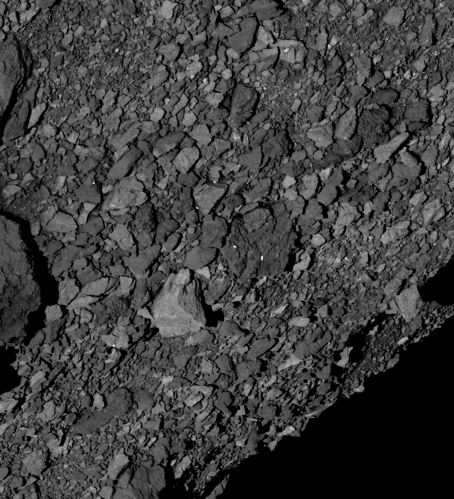 This image shows a view across asteroid Bennu’s southern hemisphere and into space, and it demonstrates the number and distribution of boulders across Bennu’s surface. The image was obtained on Mar. 7 by the PolyCam camera on NASA’s OSIRIS-REx spacecraft from a distance of about 3 miles (5 km). The large, light-colored boulder just below the center of the image is about 24 feet (7.4 meters) wide, which is roughly half the width of a basketball court.